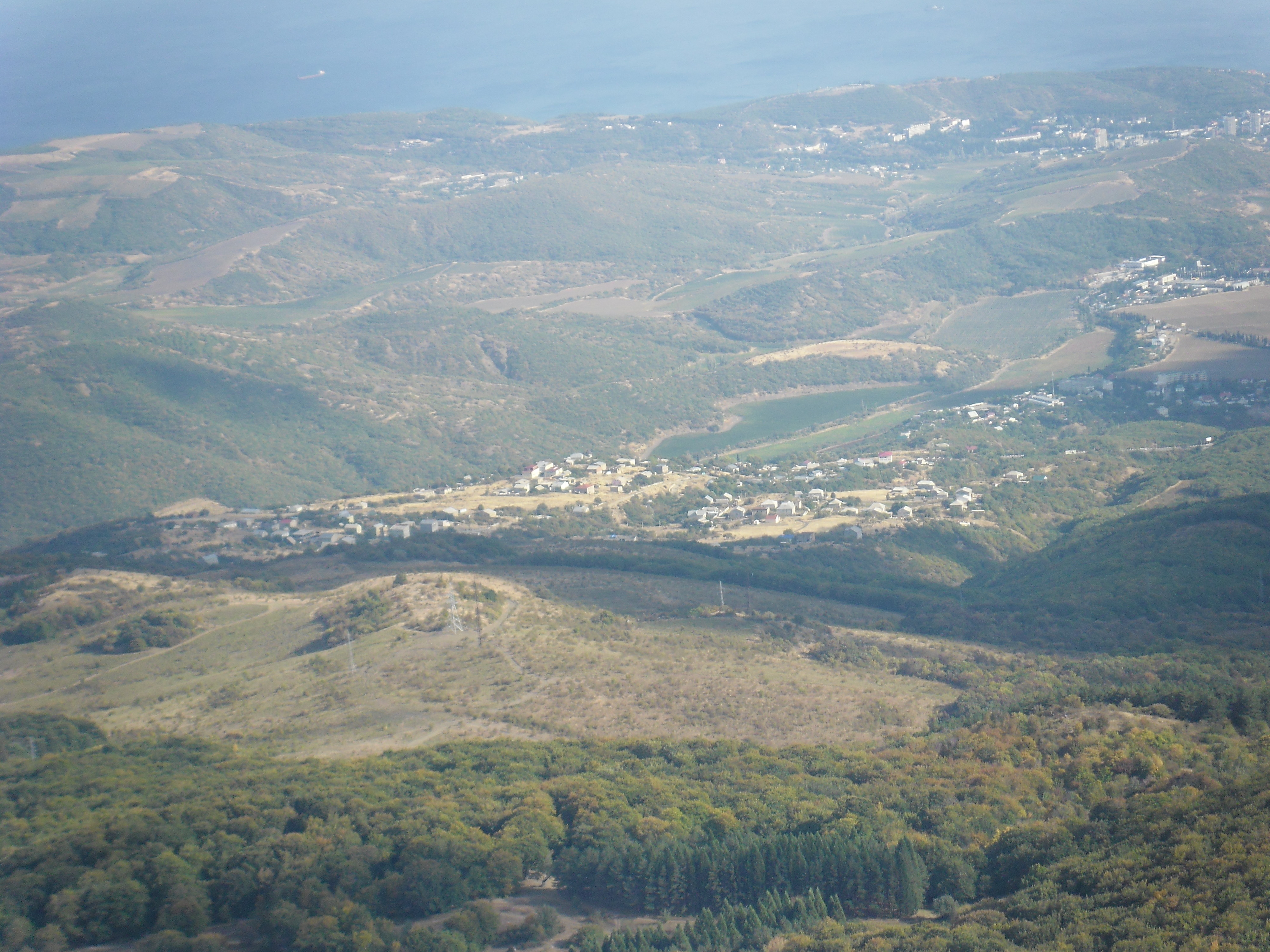 The village of Upper Kutuzovka, Alushta city council, Crimea